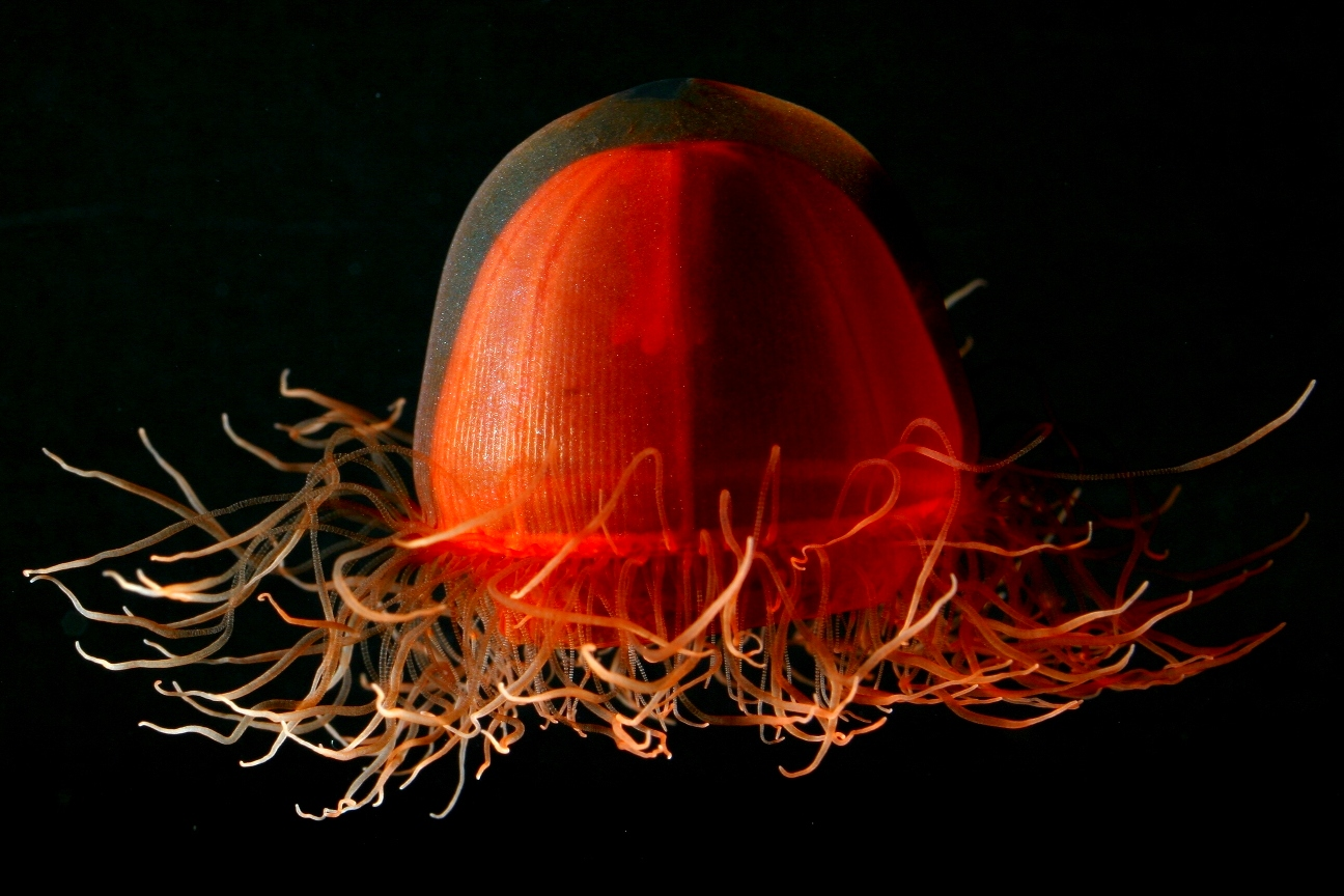 Crossota sp., a deep red medusa found just off the bottom of the deep sea. Alaska, Beaufort Sea, North of Point Barrow.